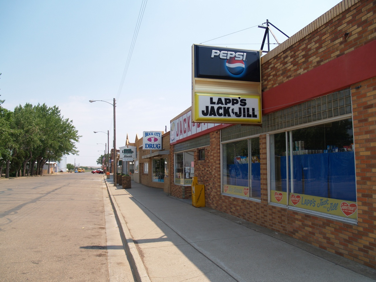 Lapp's Jack and Jill in Hebron, North Dakota